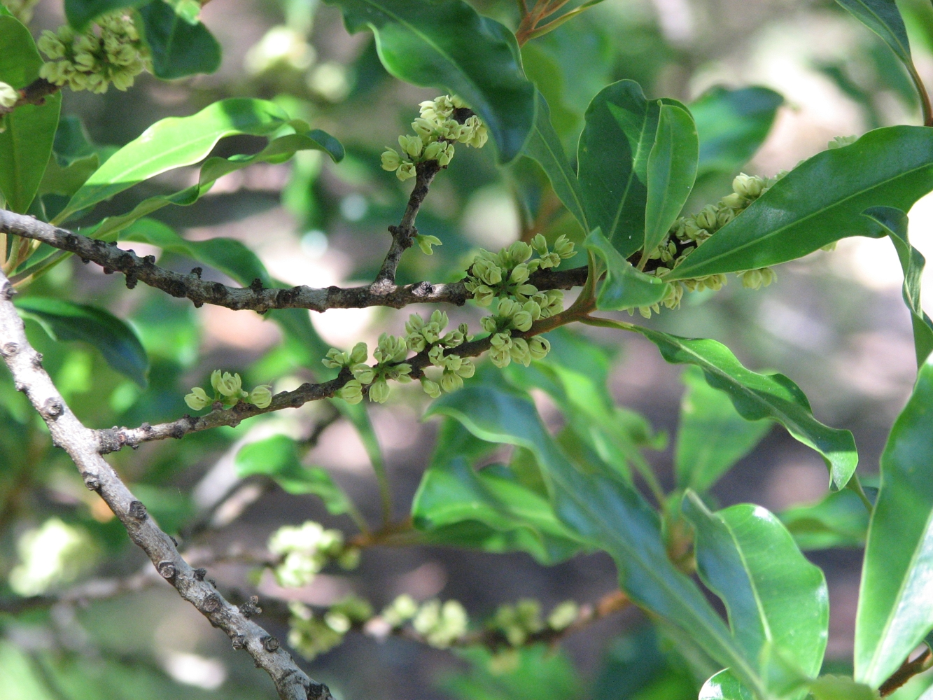 Myrsine howittiana (cultivated, labelled as Rapanea howittiana) Royal Botanic Gardens, Melbourne, Australia